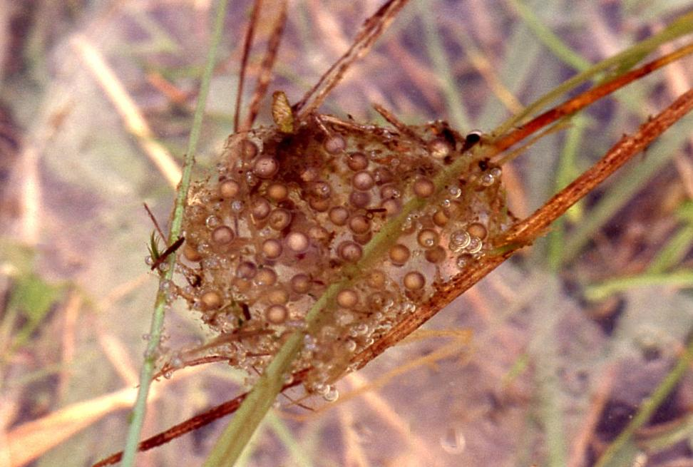 Spawn of the European Tree Frog (Hyla arborea). Those tiny egg clumbs, fastened to submerse blades of grass, are only about 2 cm long. The eggs typically are coloured yellow-brownish.